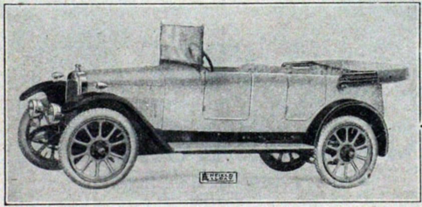 Illustration of the Enfield-Allday 10-20 HP four seat tourer. Cropped from advertisement (November, 1922)